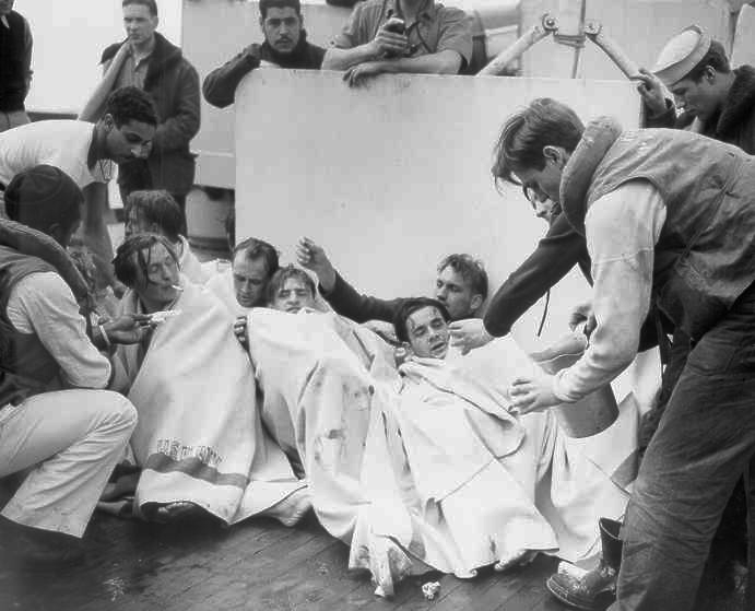 "Crew members of the U.S.S. Spencer giving coffee and cigarettes to German prisoners on the quarter deck. John Tumas, R.M. 3/c, Boston, Mass. is pouring coffee."; 17 April 1943; Photo No. 1570; photo by Jack January, USCGR. German survivors on board Spencer, from left to right: Matrosenobergefreiter Max Klinger (facing to his right--face is barely visible); Maschinenobergefreiter Werner Bickel (with cigarette); Maschinenobergefreiter Walter Schröder; Fähnrich (Ing.) Karl Völker; Matrosengefreiter Jean Bamberg (with upraised arm); and Matrosenobergefreiter Ewald Urbanek. RM3 John Tumas, USCGR, is pouring the coffee. The other Coast Guardsmen are unidentified. As soon as each survivor was brought aboard, their wet clothing was removed and each was wrapped in a Navy blanket and given coffee, brandy and cigarettes. They were soon fed a hot meal.